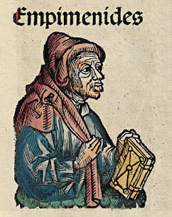 Woodcut from the Nuremberg Chronicle